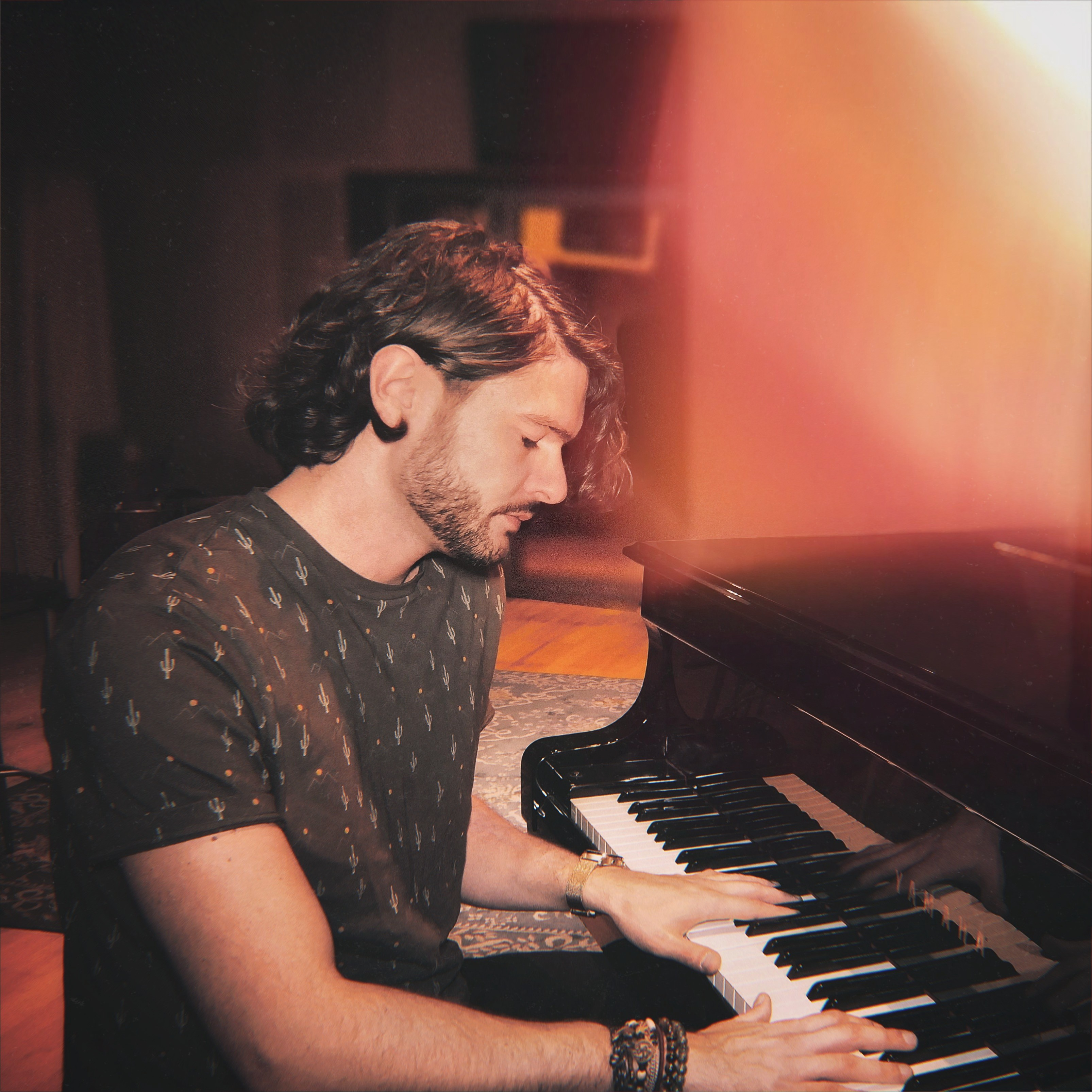 Tim Aeby playing the piano during a studio session